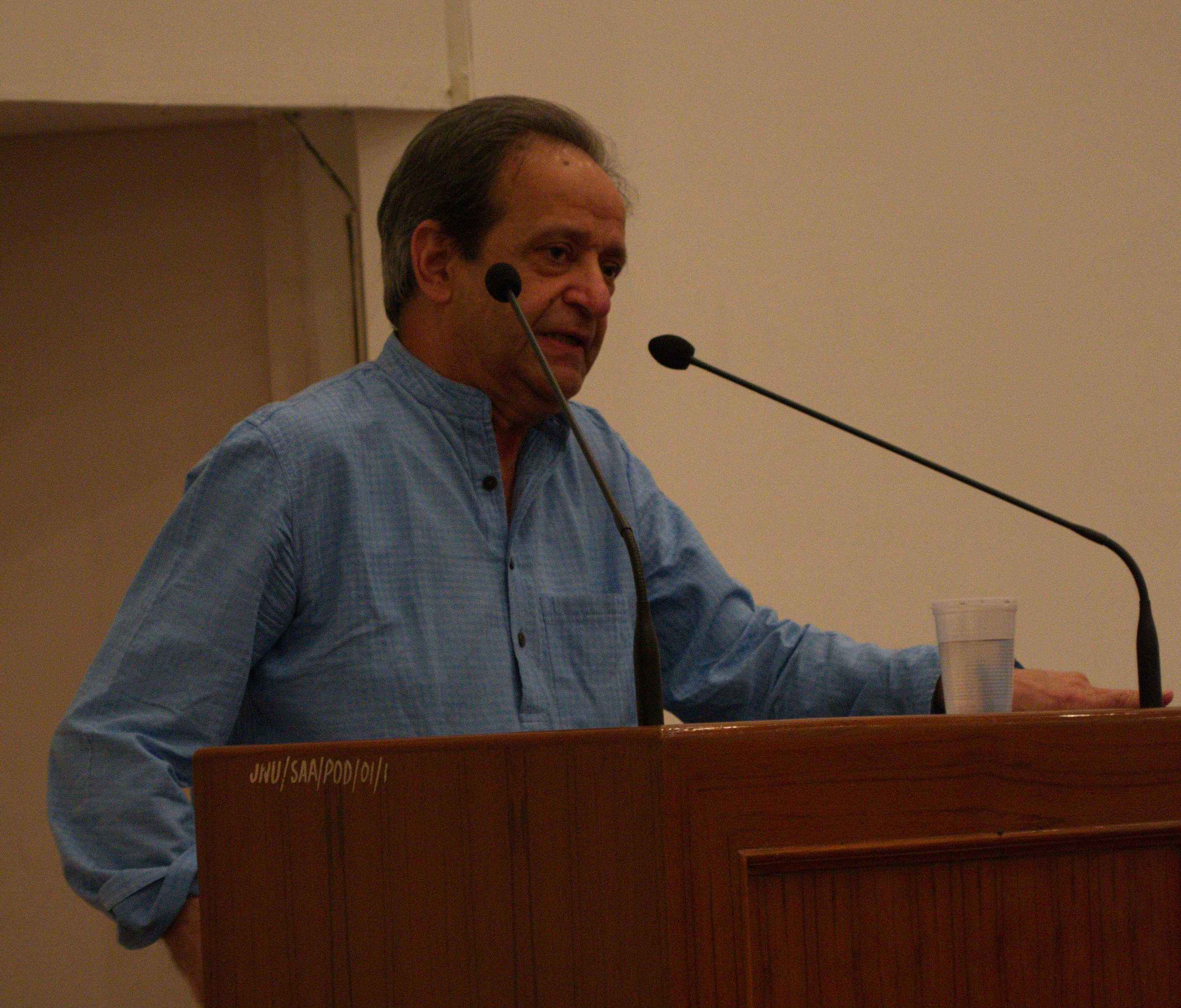 Aijaz Ahmad, delivering the 11th Annual EMS Namboodiripad Memorial Lecture hosted by the Students' Federation of India (SFI) in Jawaharlal Nehru University (JNU), New Delhi, on 26 April 2013.